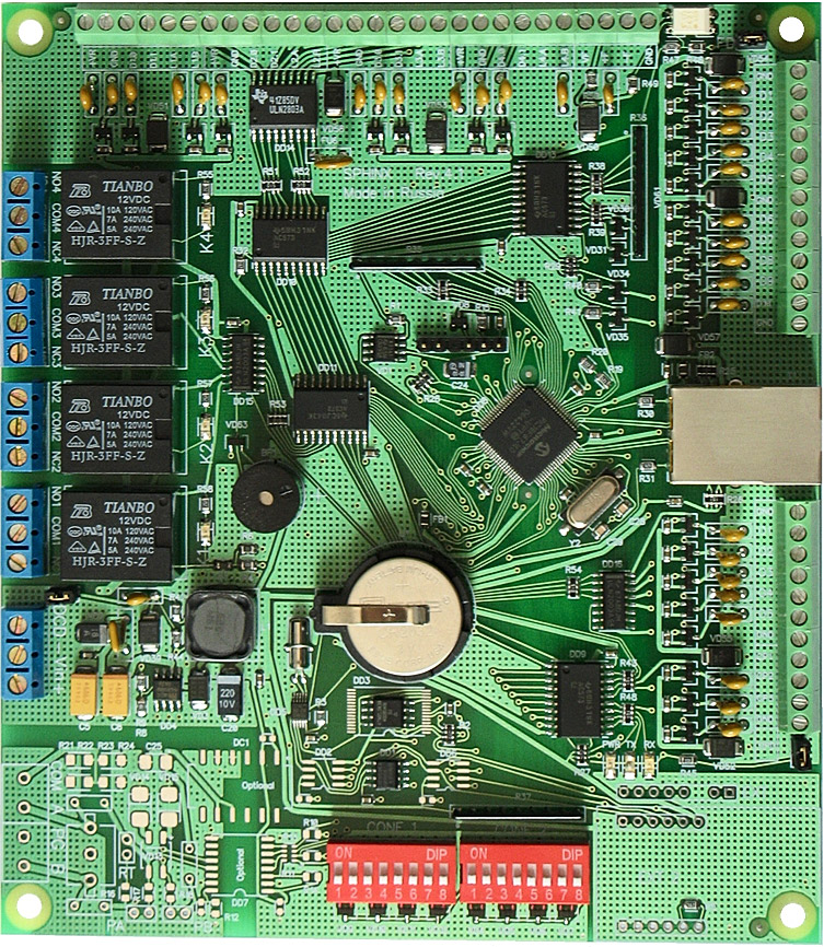 Printed circuit board designed in TopoR autorouter